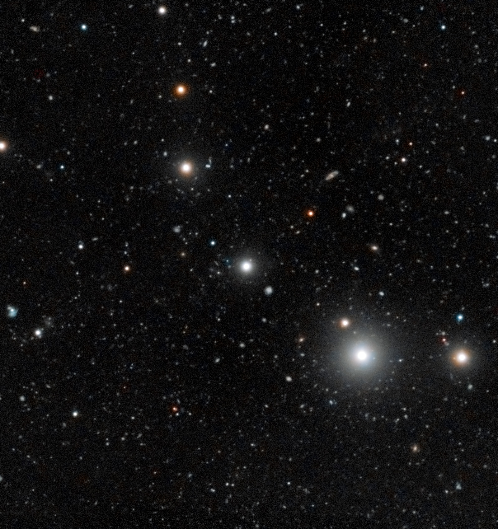 This deep image shows the region of the sky around the quasar HE 0109-3518. The quasar is near the centre of the image. The energetic radiation of the quasar makes dark galaxies glow, helping astronomers to understand the obscure early stages of galaxy formation. Dark galaxies are essentially devoid of stars, therefore they don’t emit any light that telescopes can catch. This makes them virtually impossible to observe unless they are illuminated by an external light source like a background quasar. This image combines observations from the Very Large Telescope, tuned to detect the fluorescent emissions produced by the quasar illuminating the dark galaxies, with colour data from the Digitized Sky Survey 2.